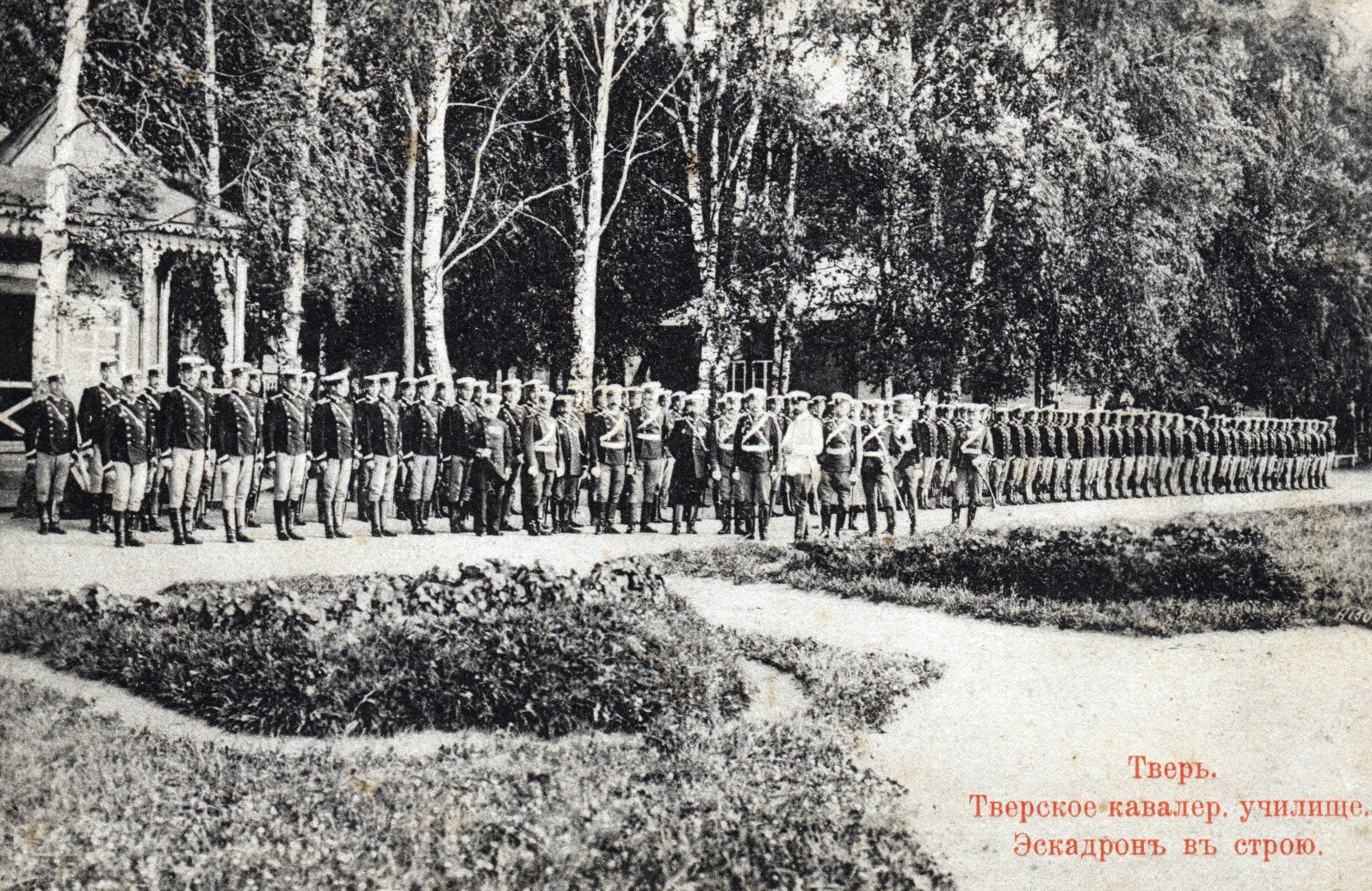 The Tver cavalry school. A squadron in a system.